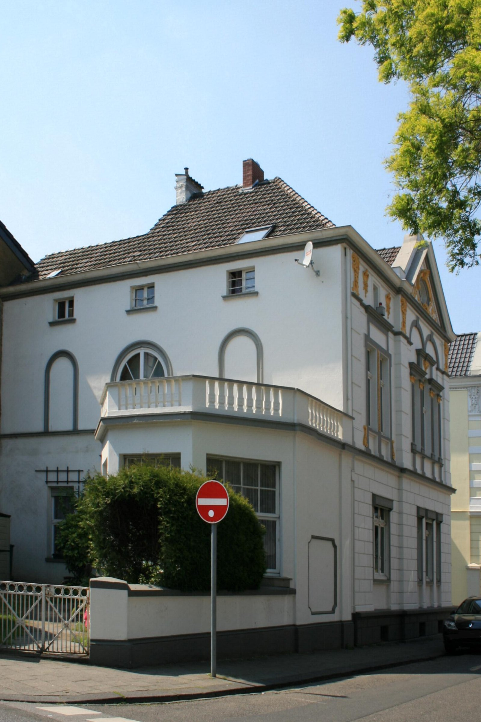 Cultural heritage monument No. W 037 in Mönchengladbach